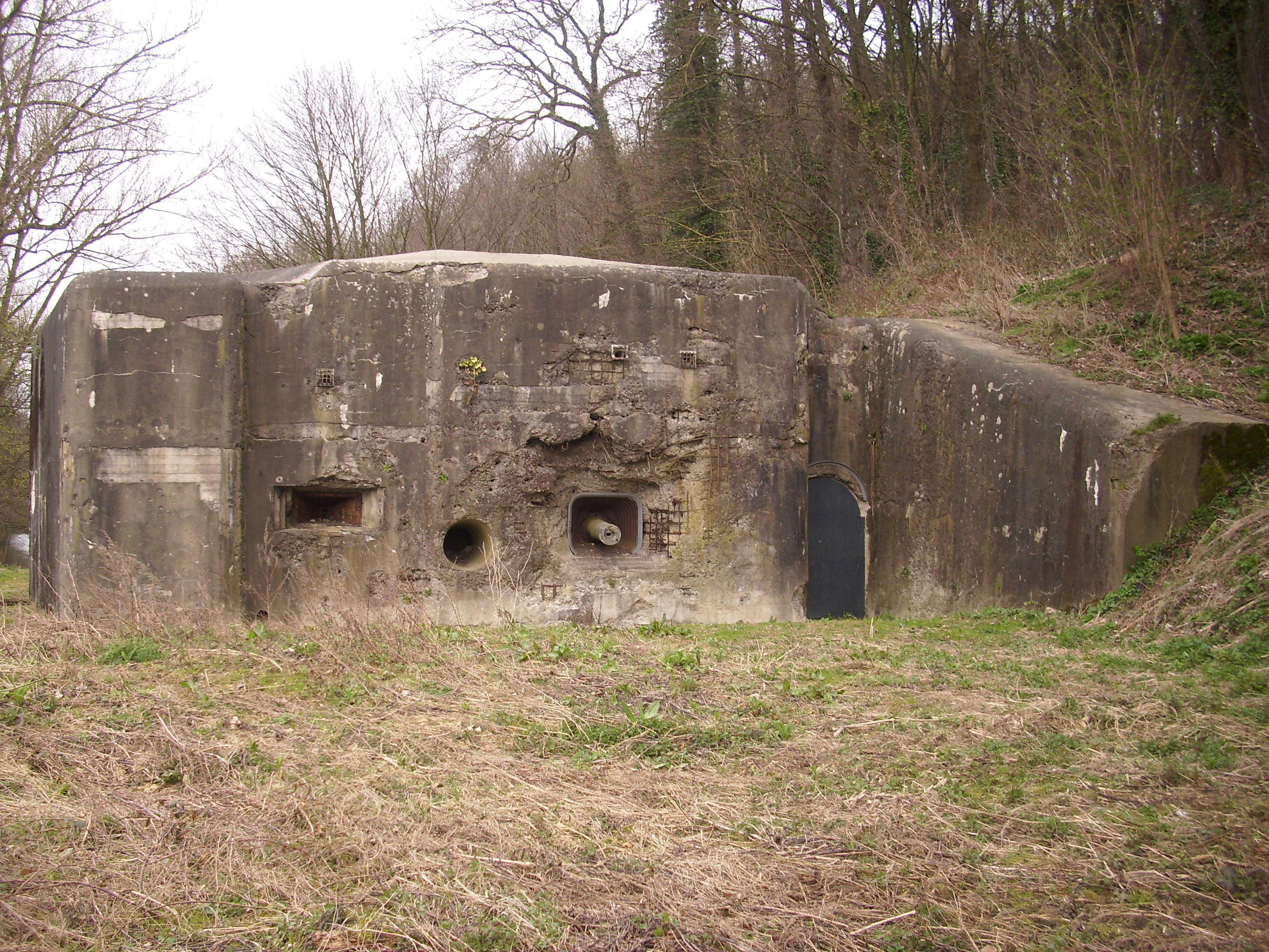 Fort Eben-Emael Block II